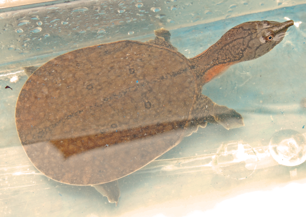 Dogania subplana, juvenile. From Bogor, West Java.